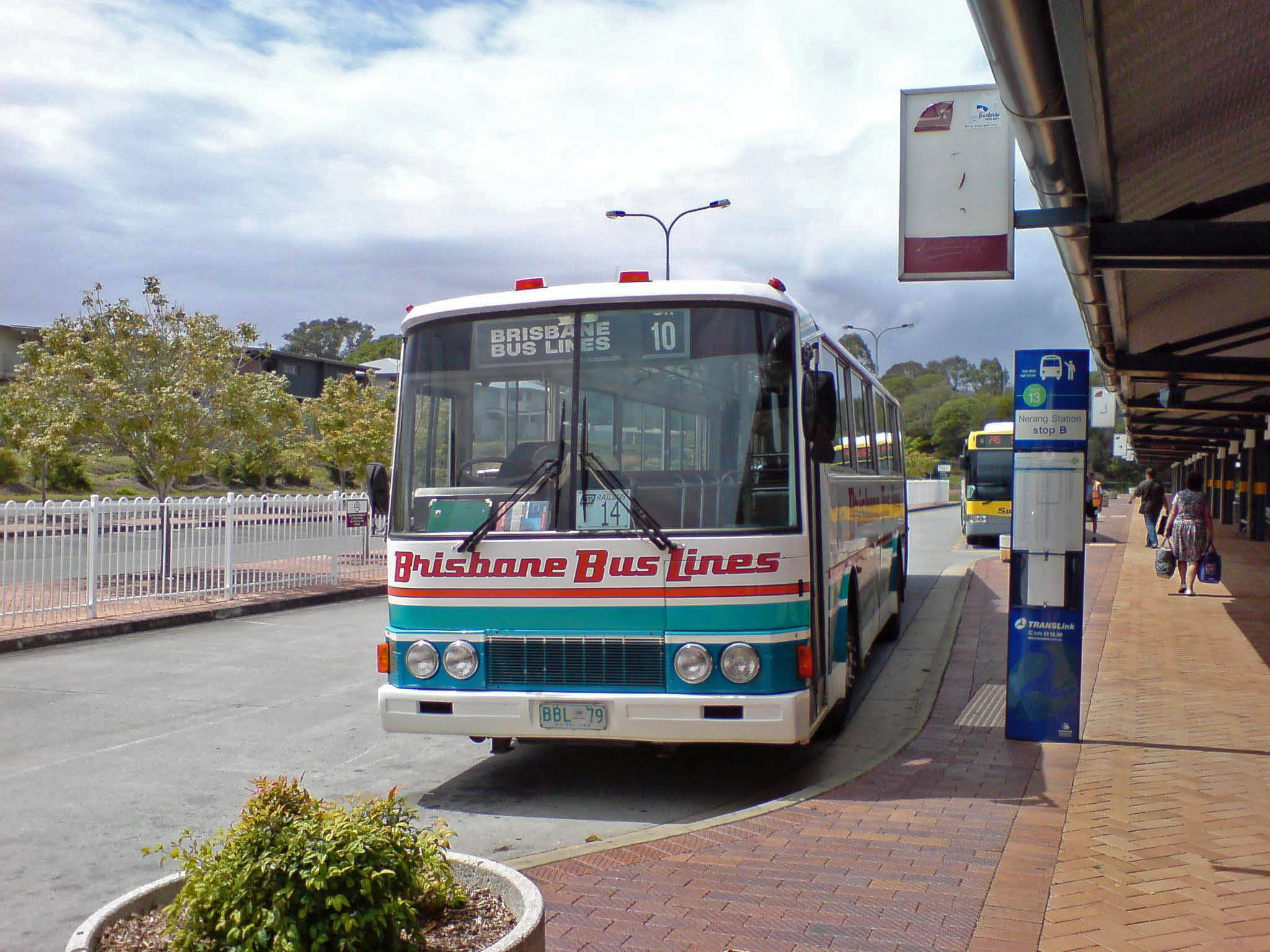 Brisbane Bus Lines, Fuji Heavy Industries bodied Volvo B10ML, unit 79 at Nerang Station. SM247My Talk 23:00, 2 March 2007 (UTC)